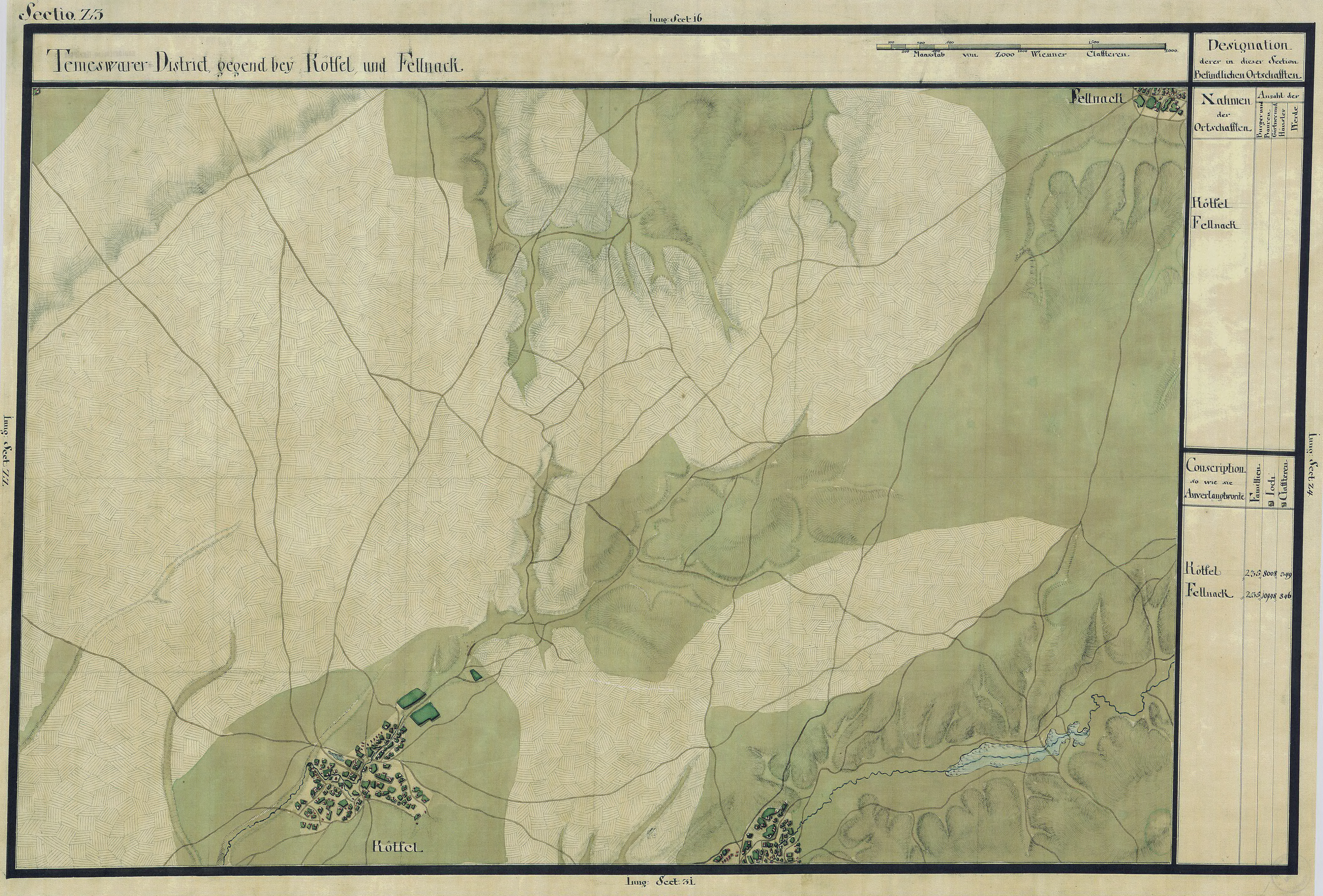 The Banat region in the cadastral maps: Josephinische Landesaufnahme, 1769-72. Josephinische Landaufnahme pg023